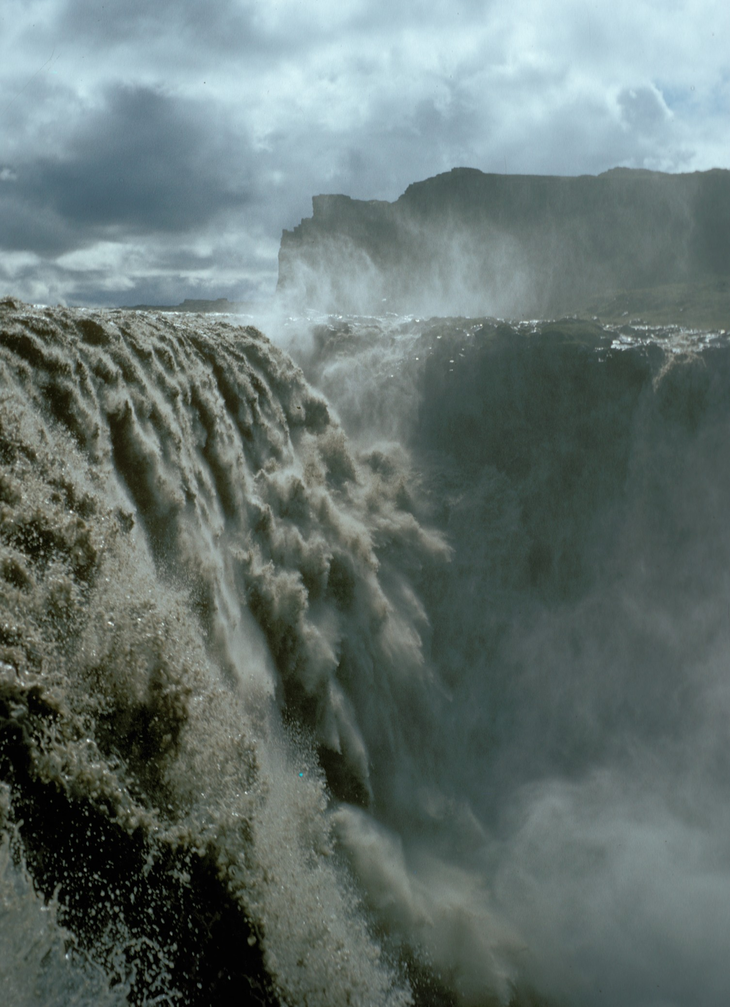 The Dettifoss in Iceland on 31 Jul 1972. Picture taken and uploaded by Roger McLassus. A processed version was elected "featured picture" in the English Wikipedia on 11 Dec 2005.